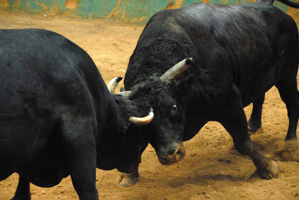 Two black bulls about to lock horns in Ishikawa.